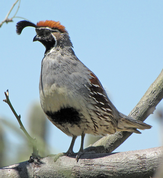 A male Gambel's Quail in Tucson, Arizona, USA.